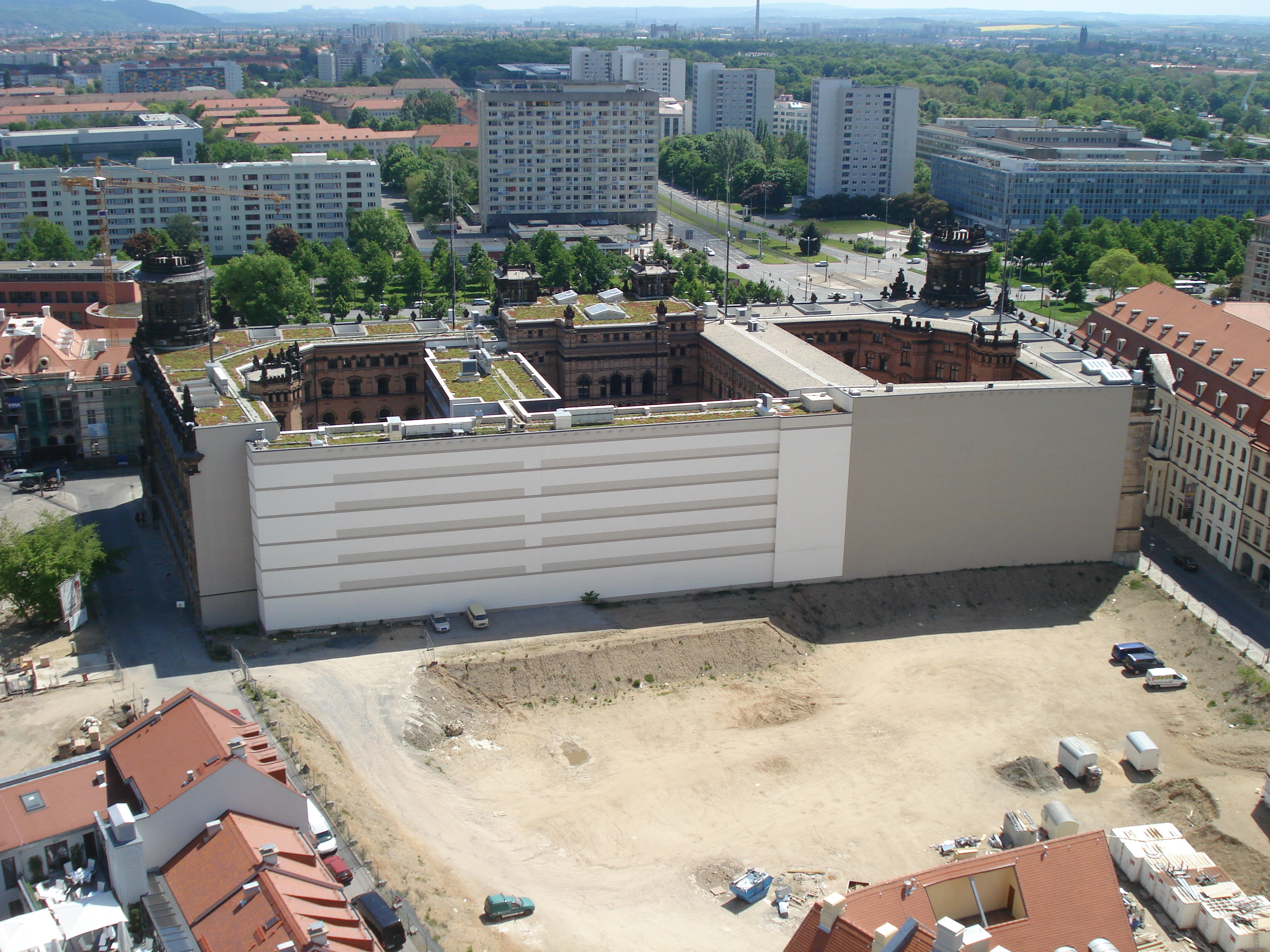 The terrain of Dresden